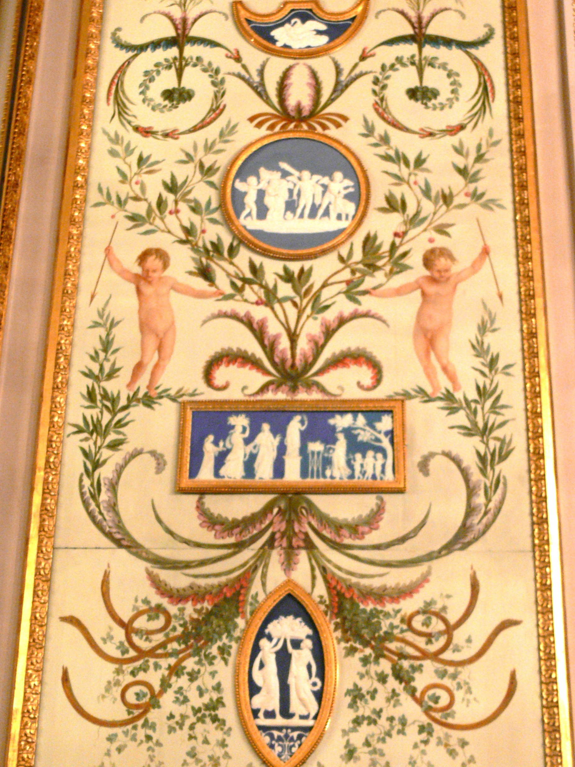 Vienna. Palais Erzherzog Albrecht - Wedgwood cabinet: Painted panels with symbolic scenes made of Wedgwood jasperware designed by John Flaxman